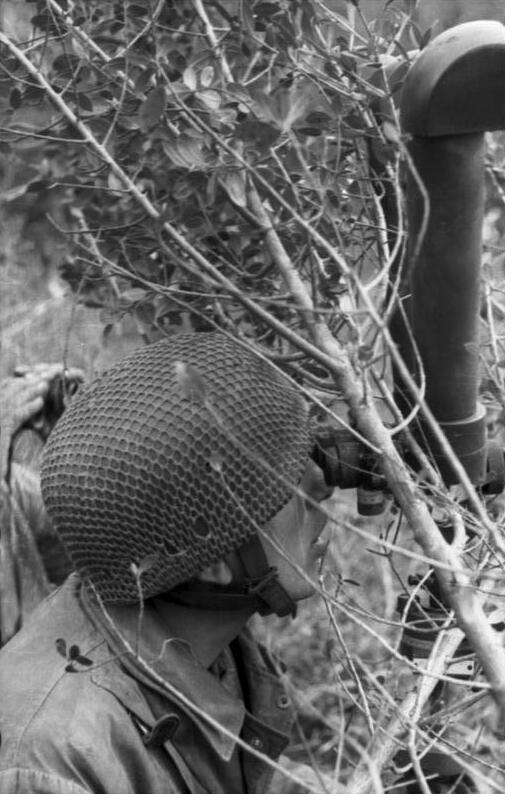 Paratrooper using periscope binoculars